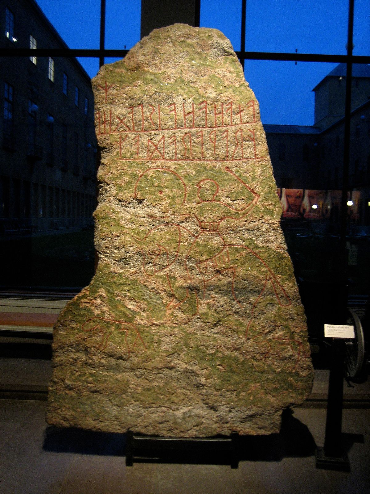 Möjbrostenen, in the entrance hall of historiska museet